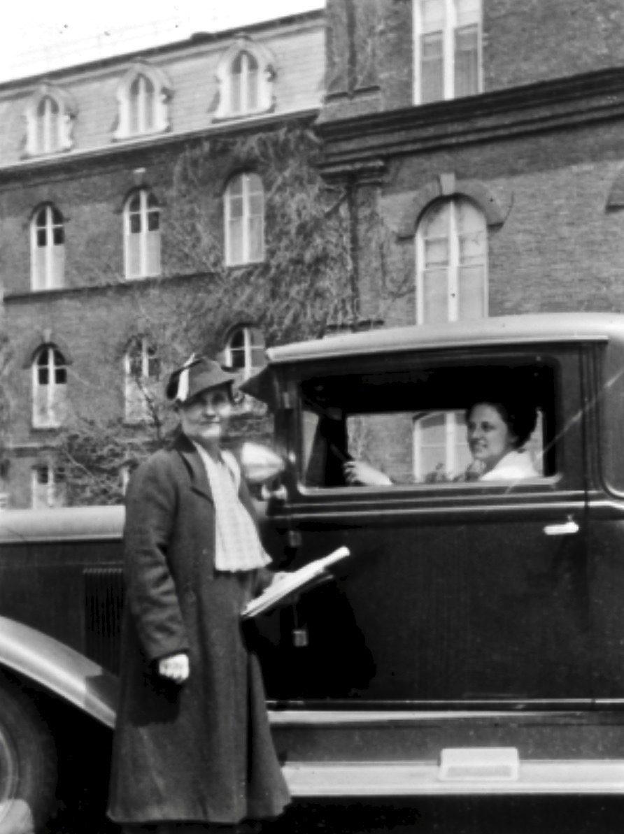 Physics professor Edna Carter (1872–1963) and Monica Healea of Vassar College in Poughkeepsie, New York